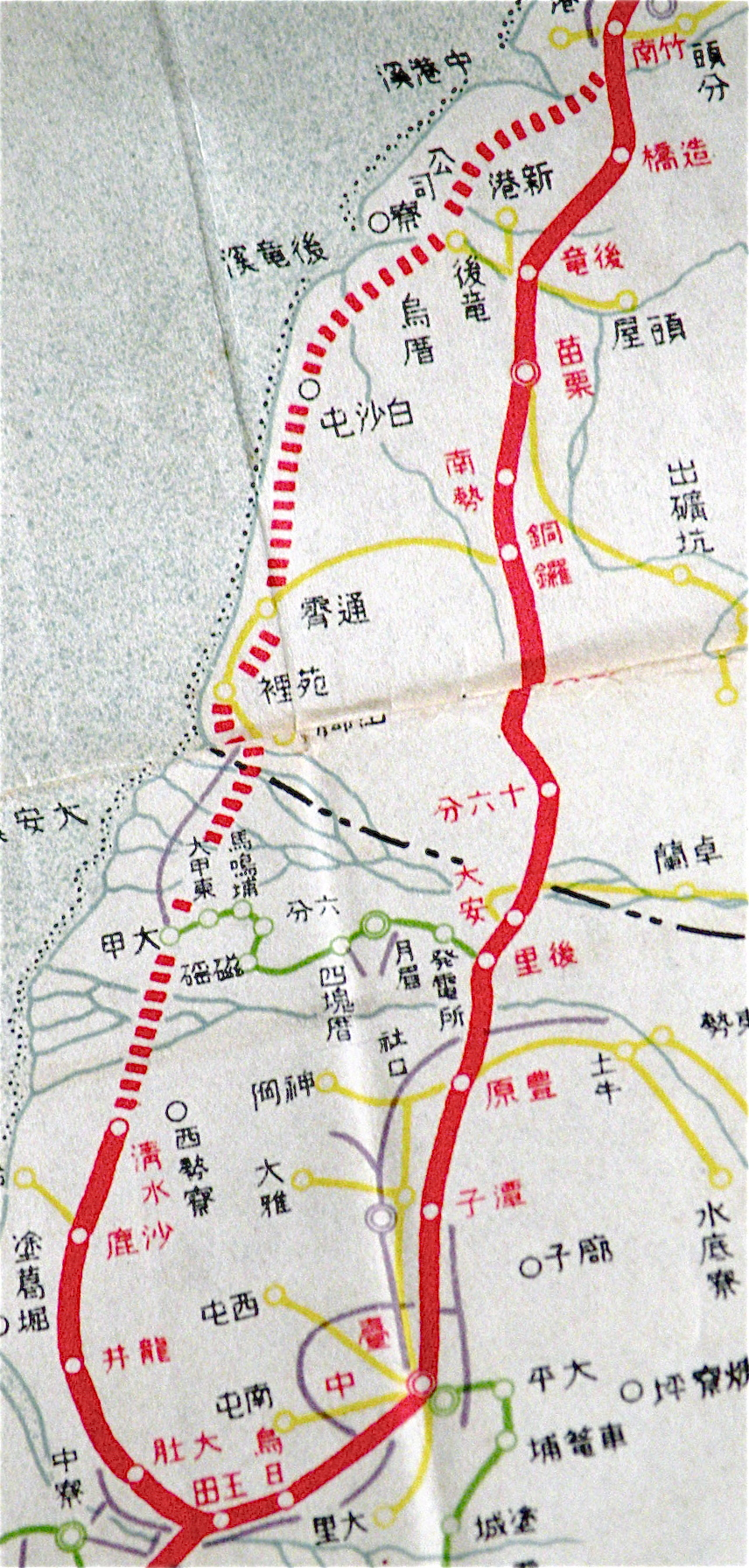 The railway map of Coast Line and Mountain Line, Taiwan, Japan